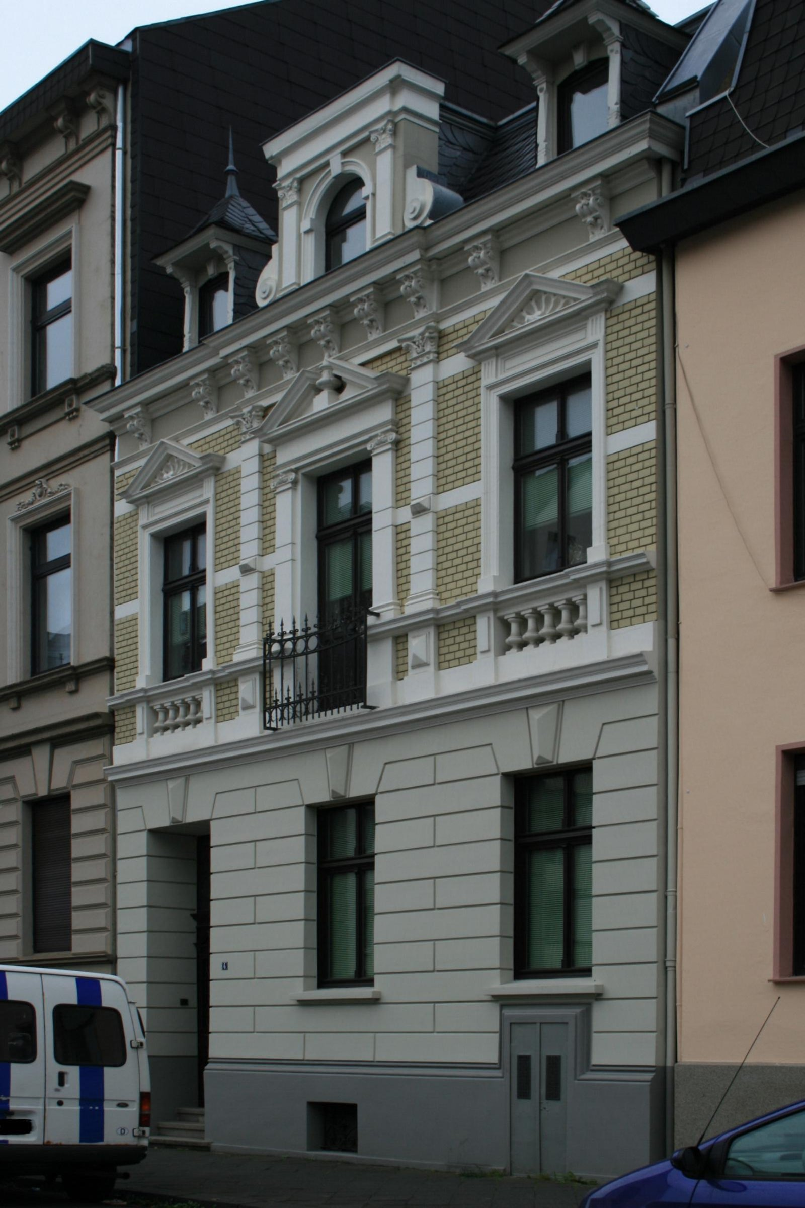 Cultural heritage monument No. St 026 in Mönchengladbach